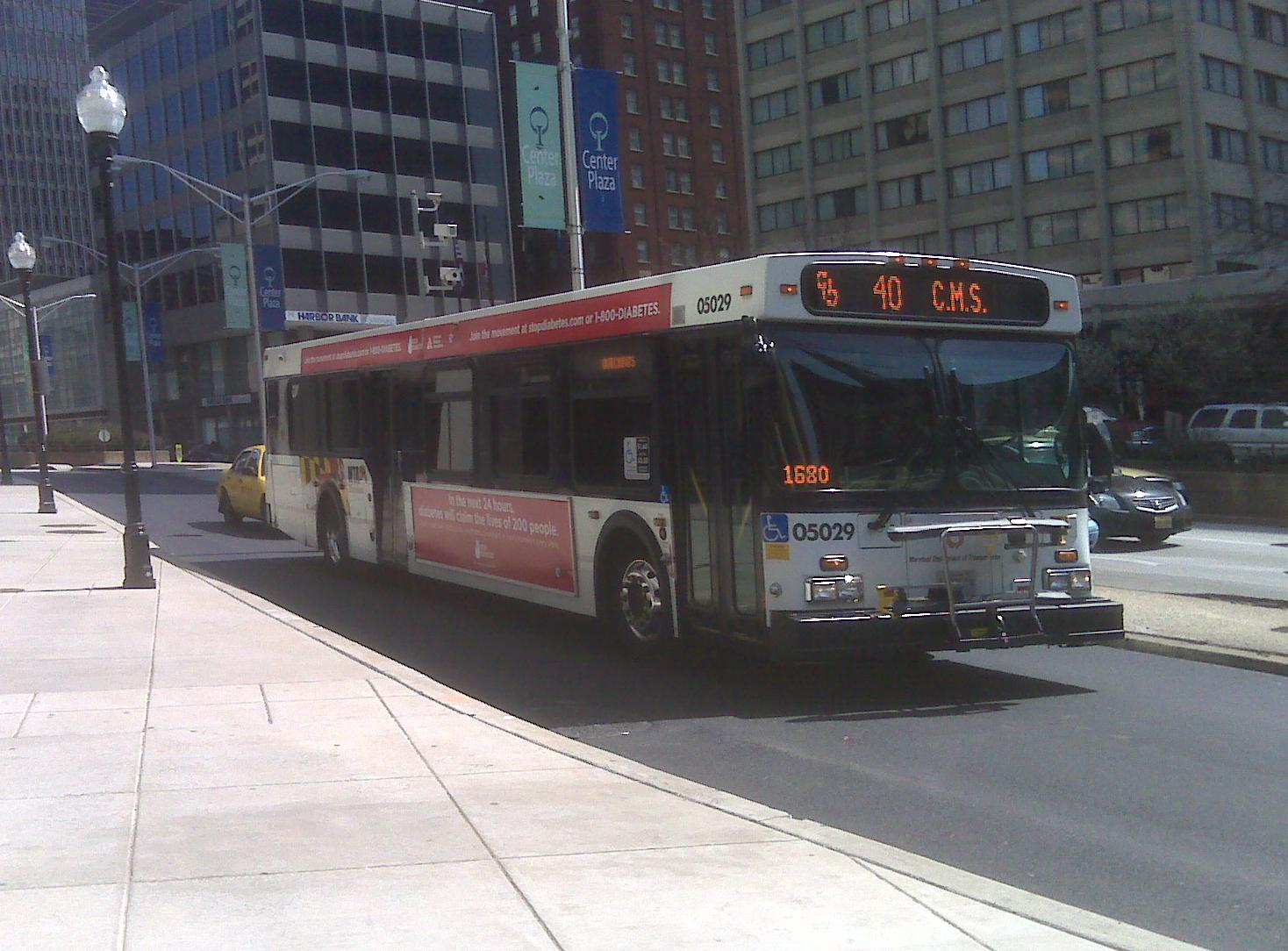 A view of MTA Maryland's Route 40 QuickBus.